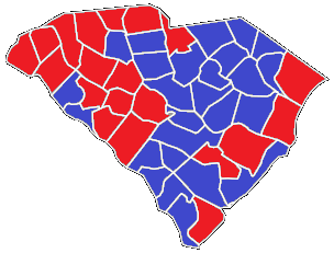 Results of the 2010 South Carolina gubernatorial election, by county.